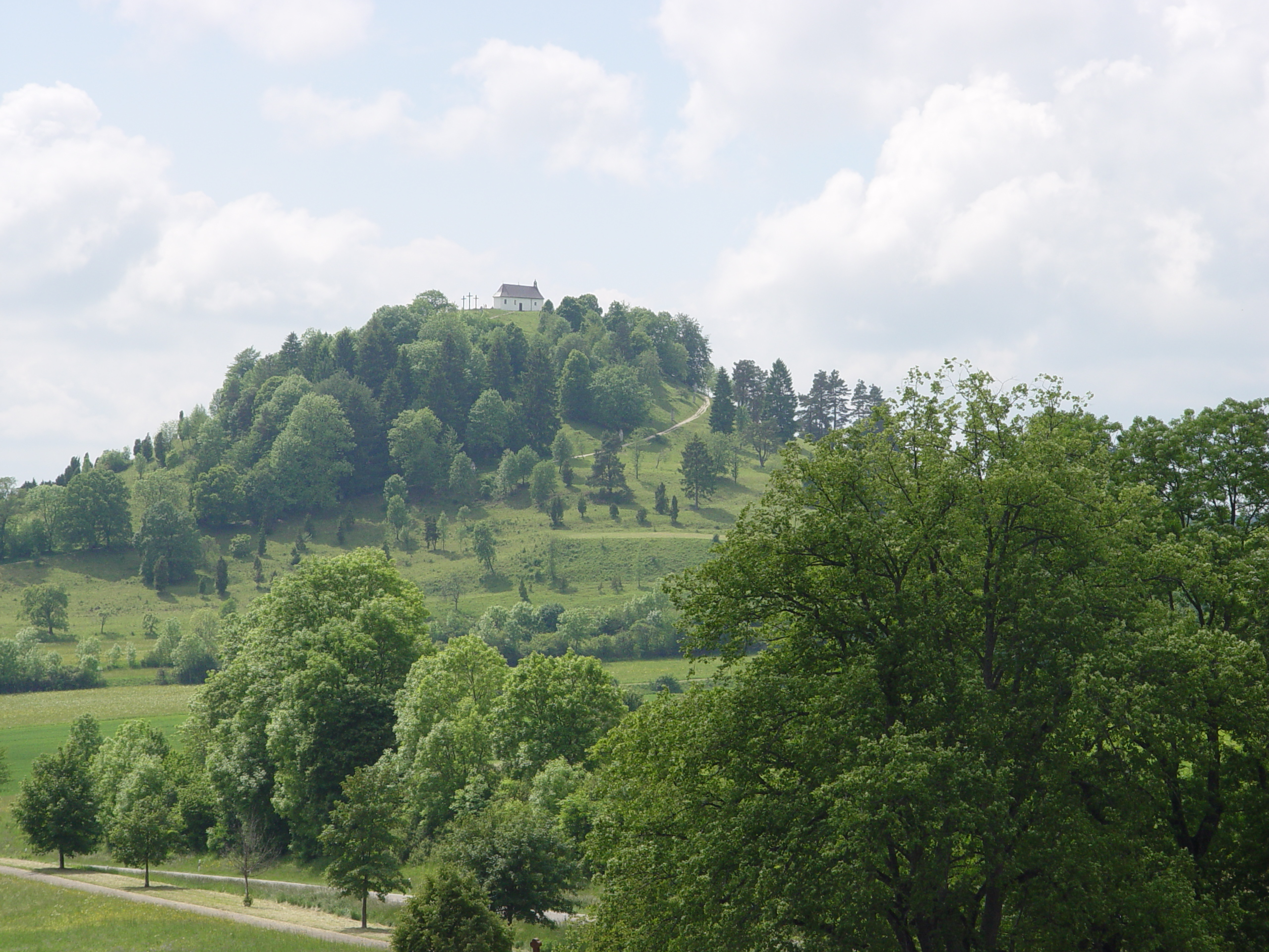 Kornbühl, Salmendingen